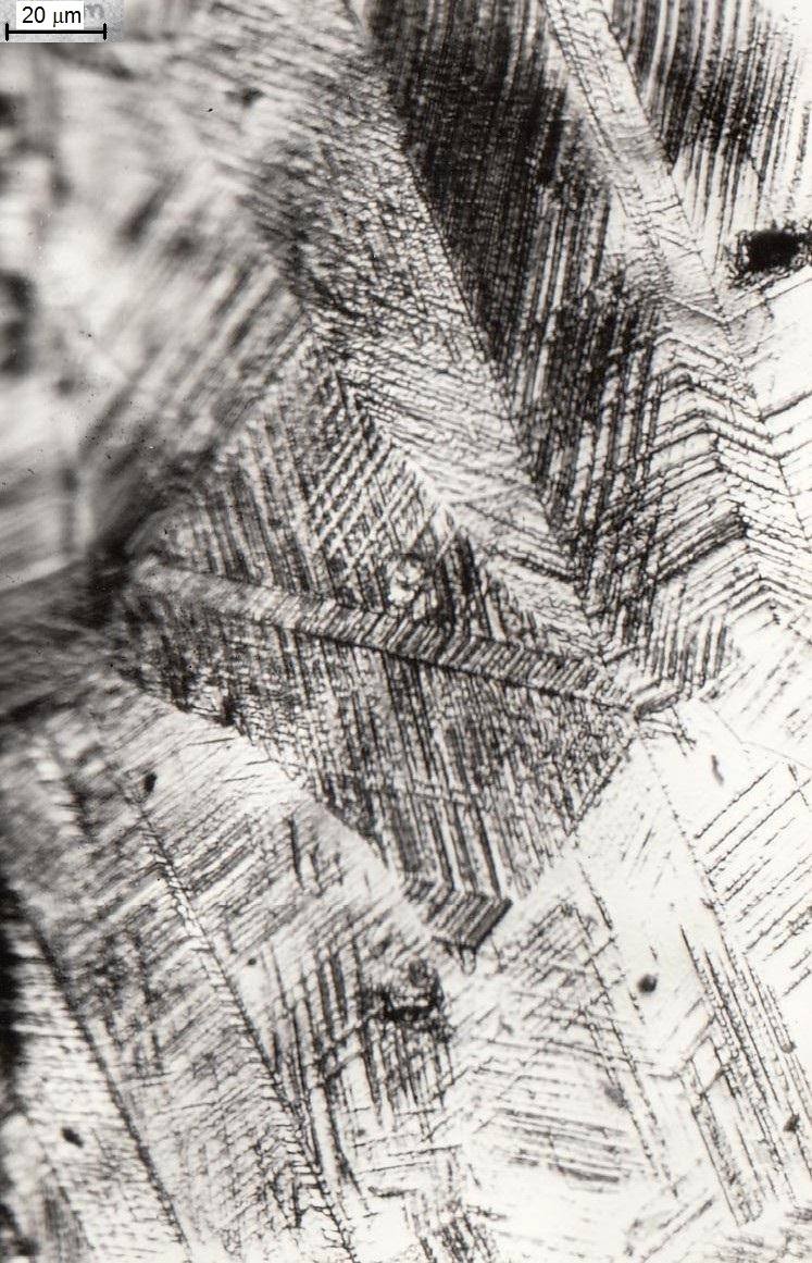 Etched glide traces on the electrolytically polished surface of a CrNiTi-steel specimen near by a Vickers indentation